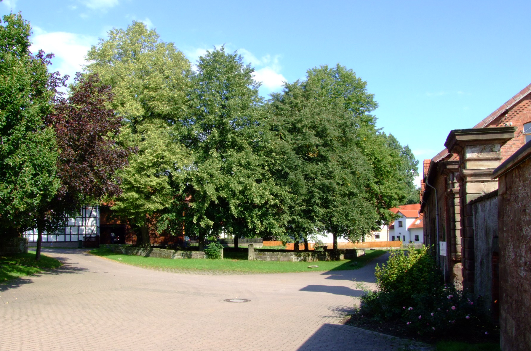 Thing square in Rittmarshausen (Gemeinde Gleichen, Lower Saxony, Germany)